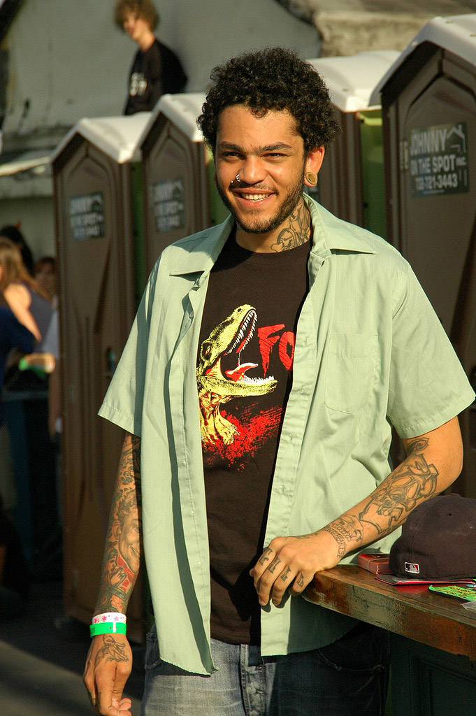 This is a picture taken of Travis McCoy (Schleprok) on June 18, 2005, at The Stone Pony in Asbury Park, NJ, by myself (Mark Perdomo)